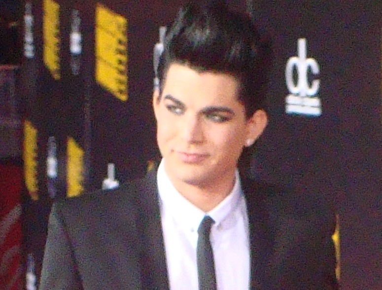 Adam Lambert at 2009 American Music Awards.